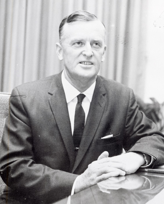 Australian politician Joh Bjelke-PeterseN